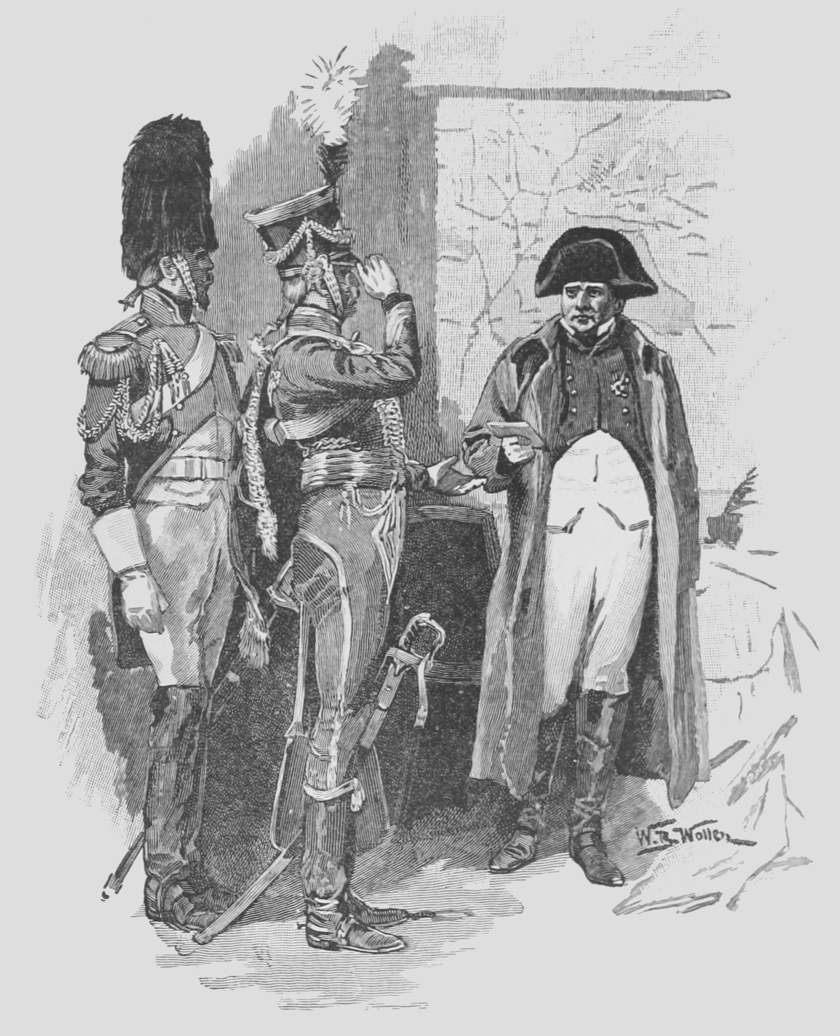 Plate of The Exploits of Brigadier Gerard